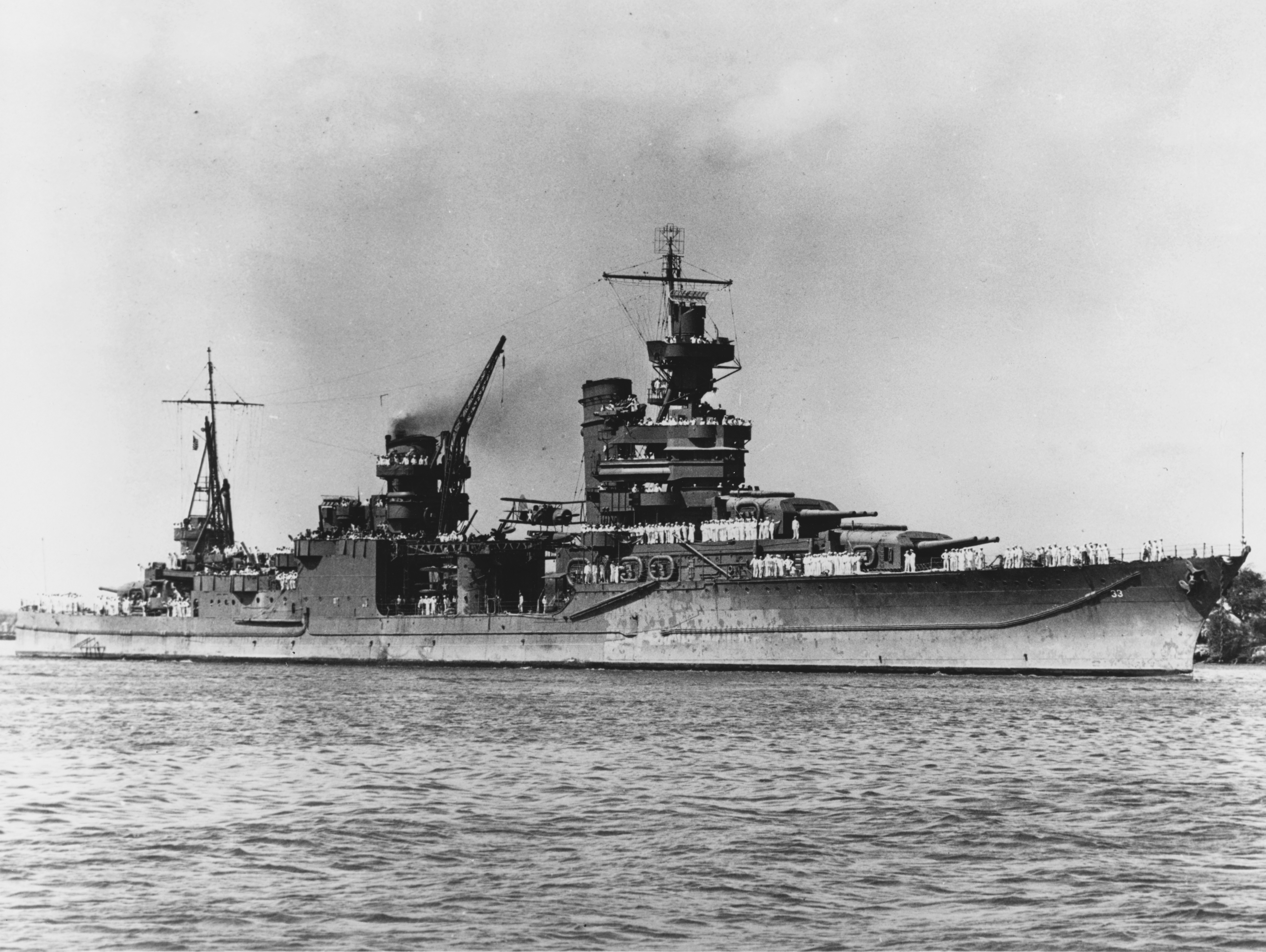 The U.S. Navy heavy cruiser USS Portland (CA-33) at Pearl Harbor, Hawaii (USA), 14 June 1942, with her crew paraded on deck in "Whites". Note the external degaussing cable fitted to the hull side of this ship.